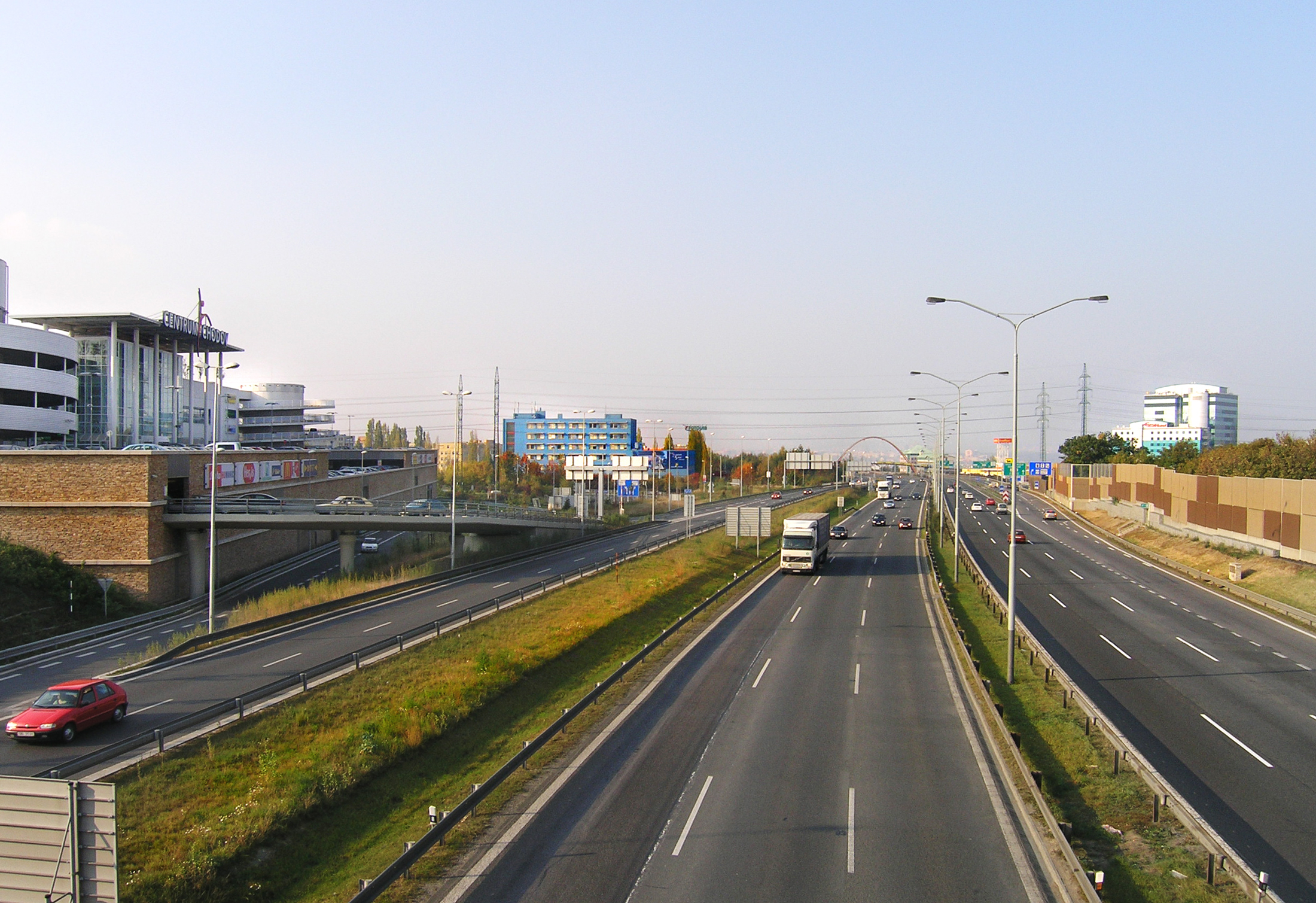 D1 Highway Chodov at Chodov, Prague